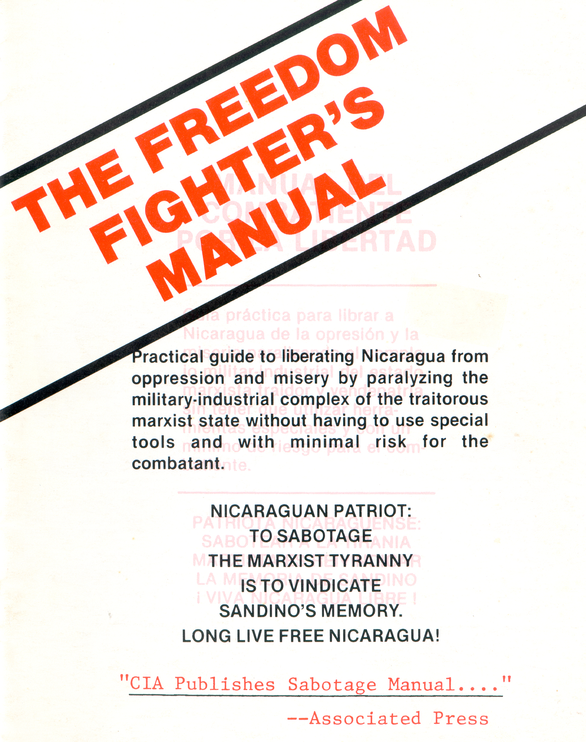 A graphic from a de-classified CIA manual air-dropped over Nicaragua in the 1980's. The entire publication is available online from numerous sources, including